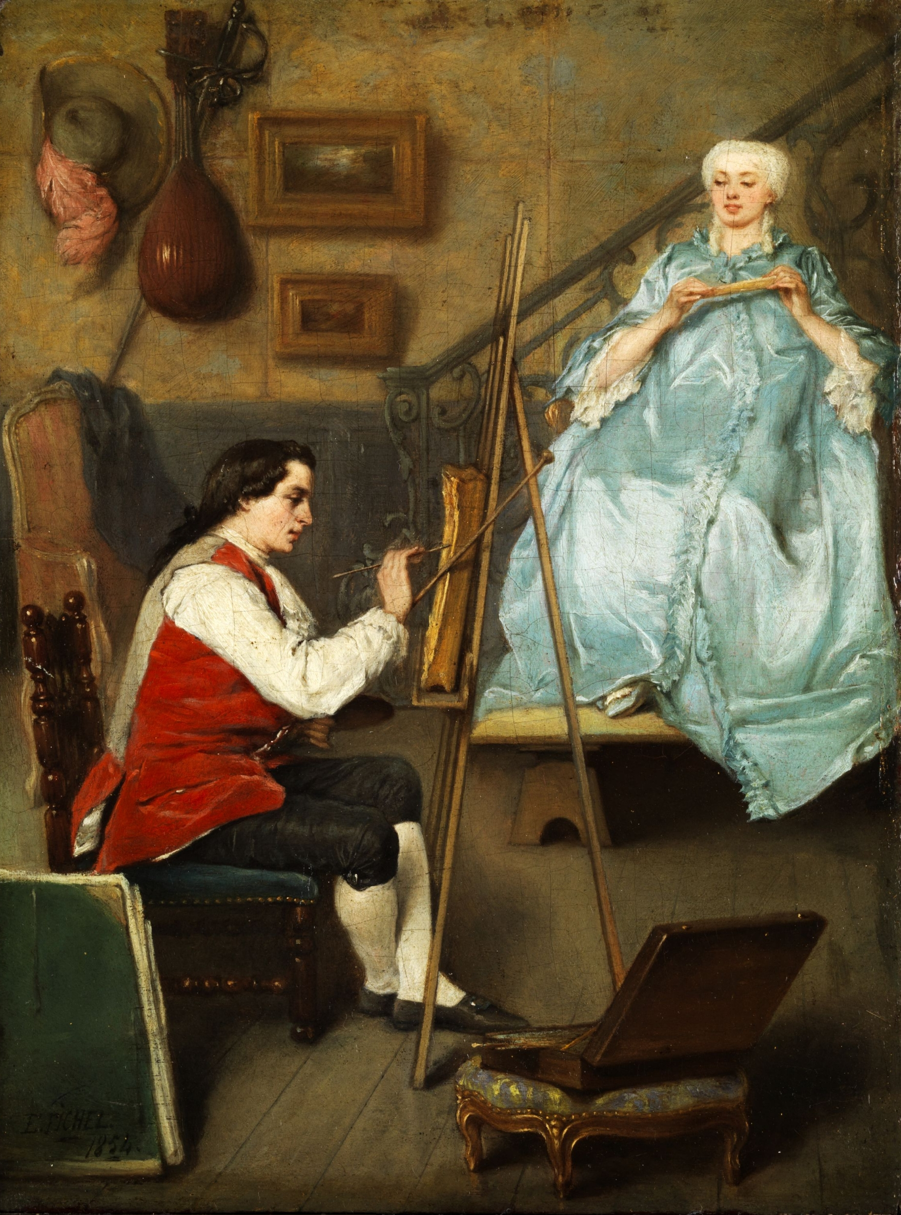 Young painter portraiting a young women in a blue silk dress.